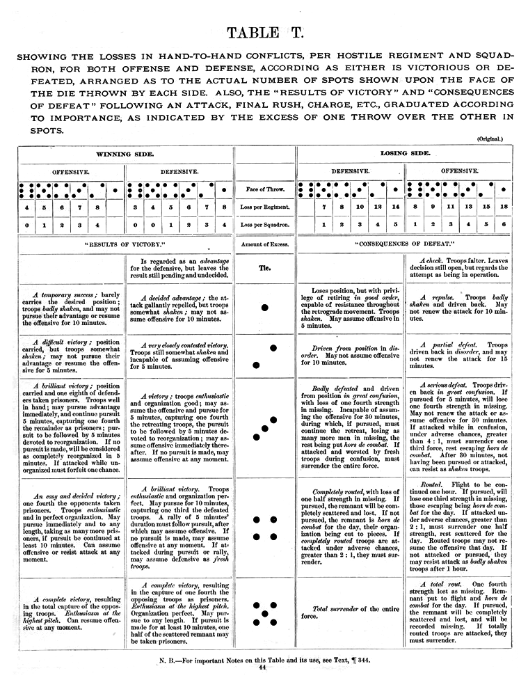 Table T, used for conflict resolution, from the game Strategos (1880). Strategos is a military wargame commissioned by the U.S. Army, and written by Charles A. L. Totten. It comes from the Kriegsspiel tradition and was used across the United States. It was later influential in the early history of role-playing games in the Twin Cities.